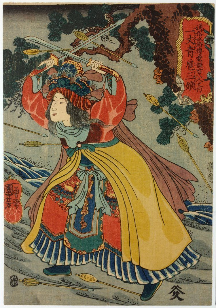 Hu Sanniang (扈三娘) using her two swords to block a hail of arrows coming towards her.